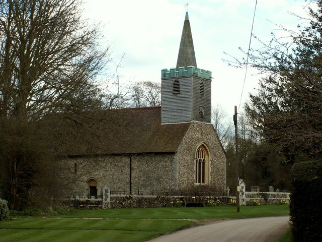 St. Mary's church, Great Canfield, Essex Apart from the 15th century belfry, the church is essentially Norman. The best feature of the church is a wall painting of the Virgin and Child, dated 1250 and said to be one of the best examples in the country. Close to the church is the remains of a motte and bailey castle.